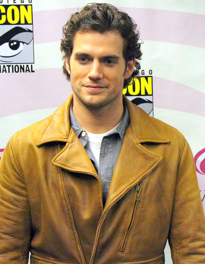 Henry Cavill at the Wondercon 2011.